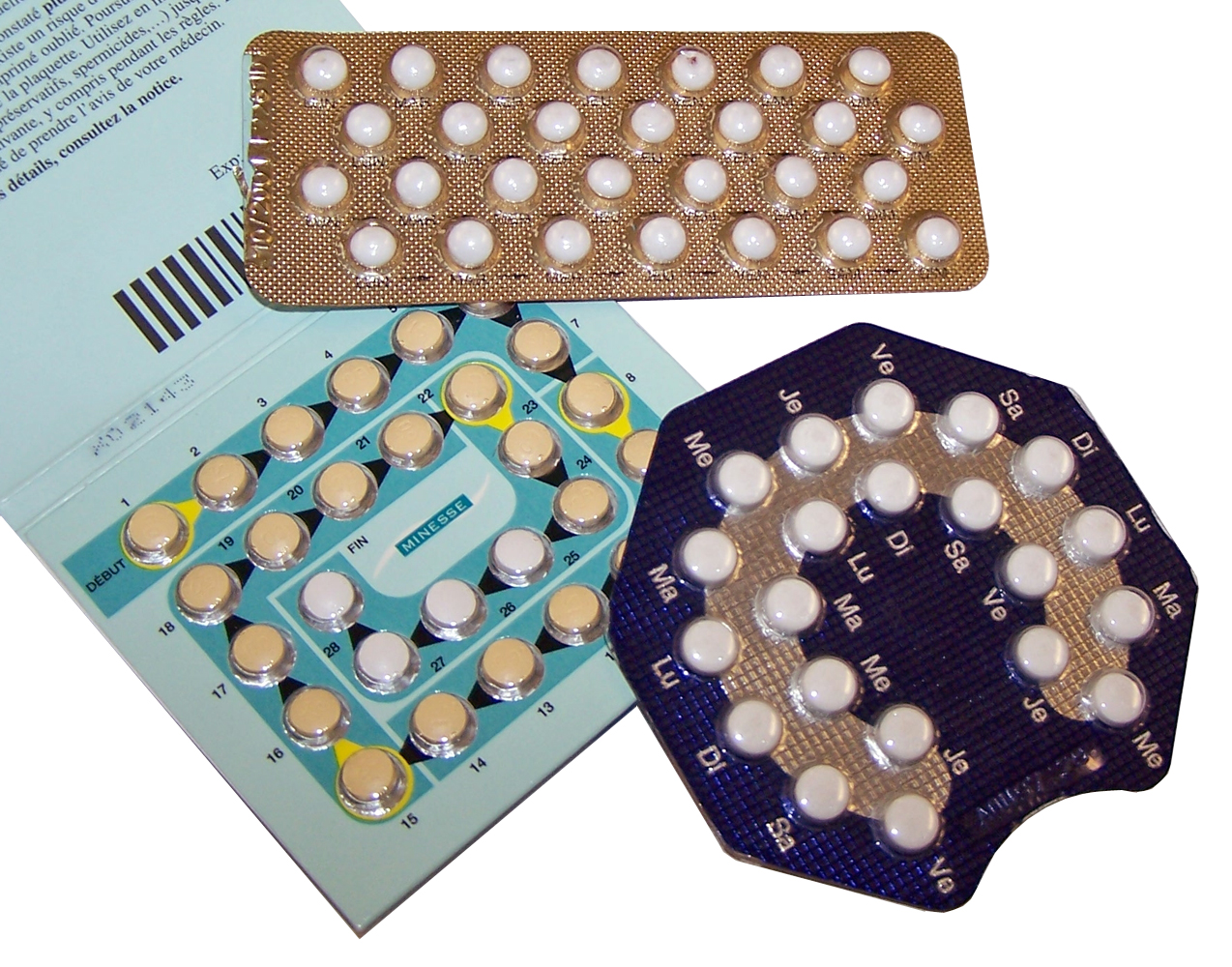 Different kinds of birth control pills.